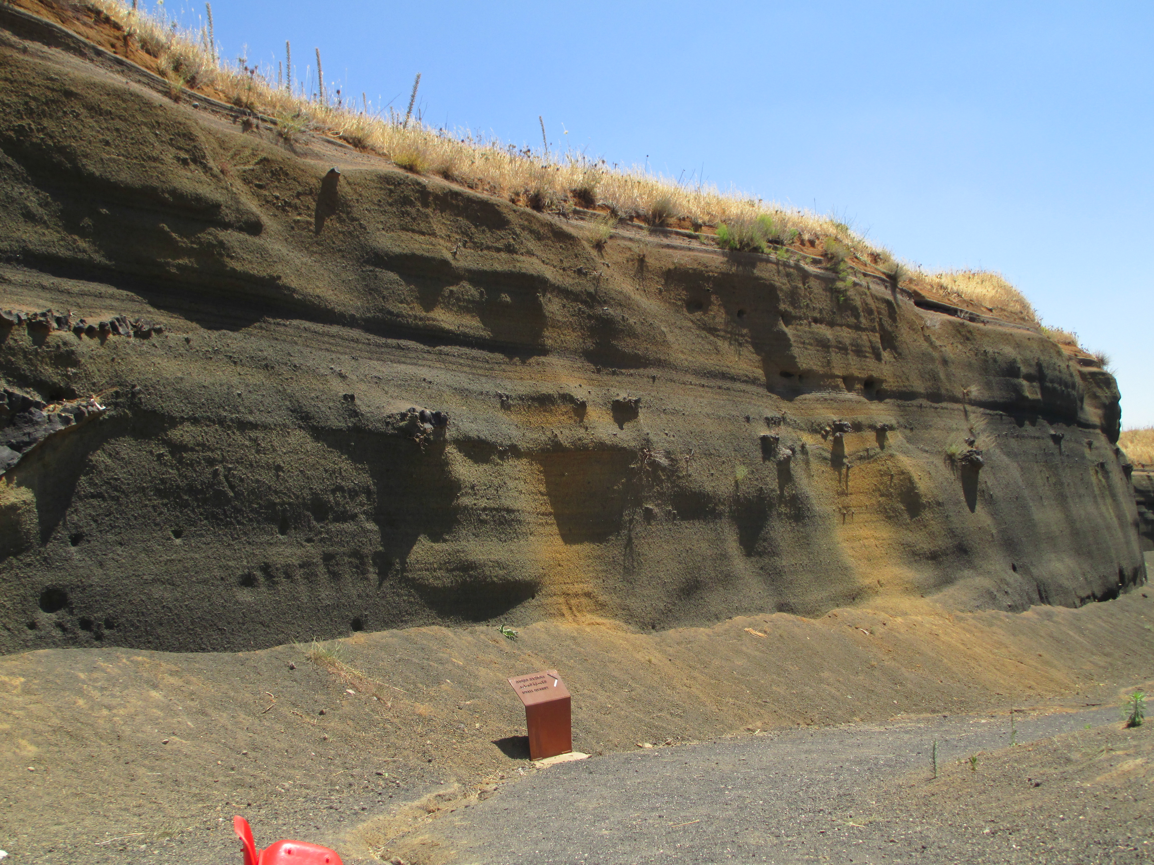 Mount Avital Volcanic Park